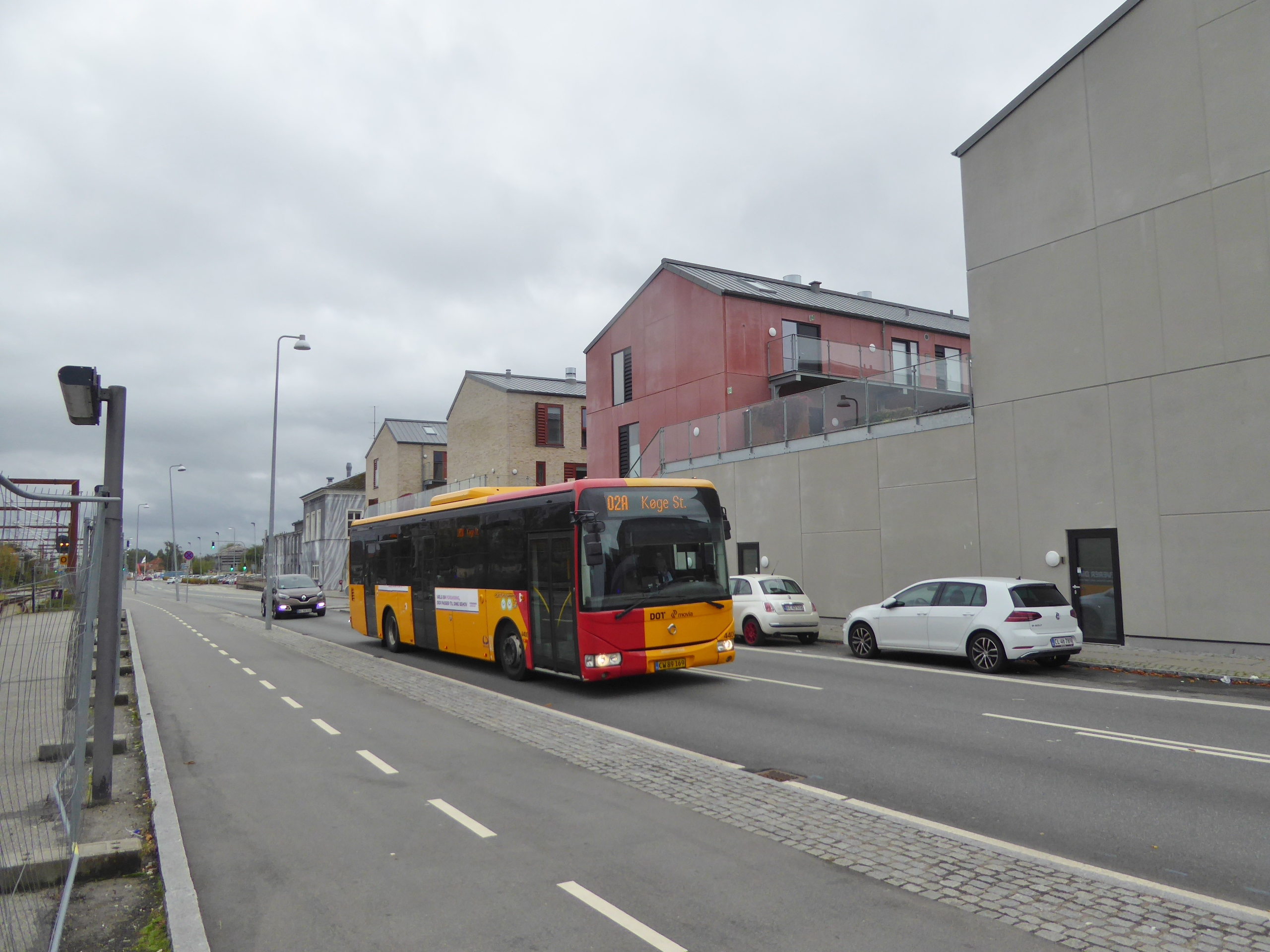 Movia bus line 102A on Ivar Huitfeldtsvej at Køge Station in Denmark.